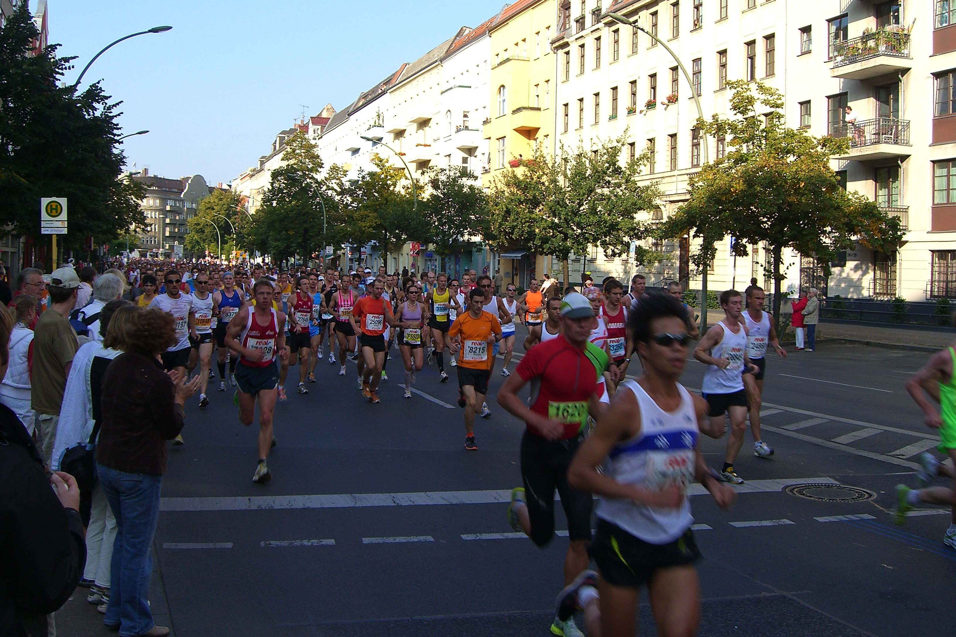 Berlin Marathon 2009.